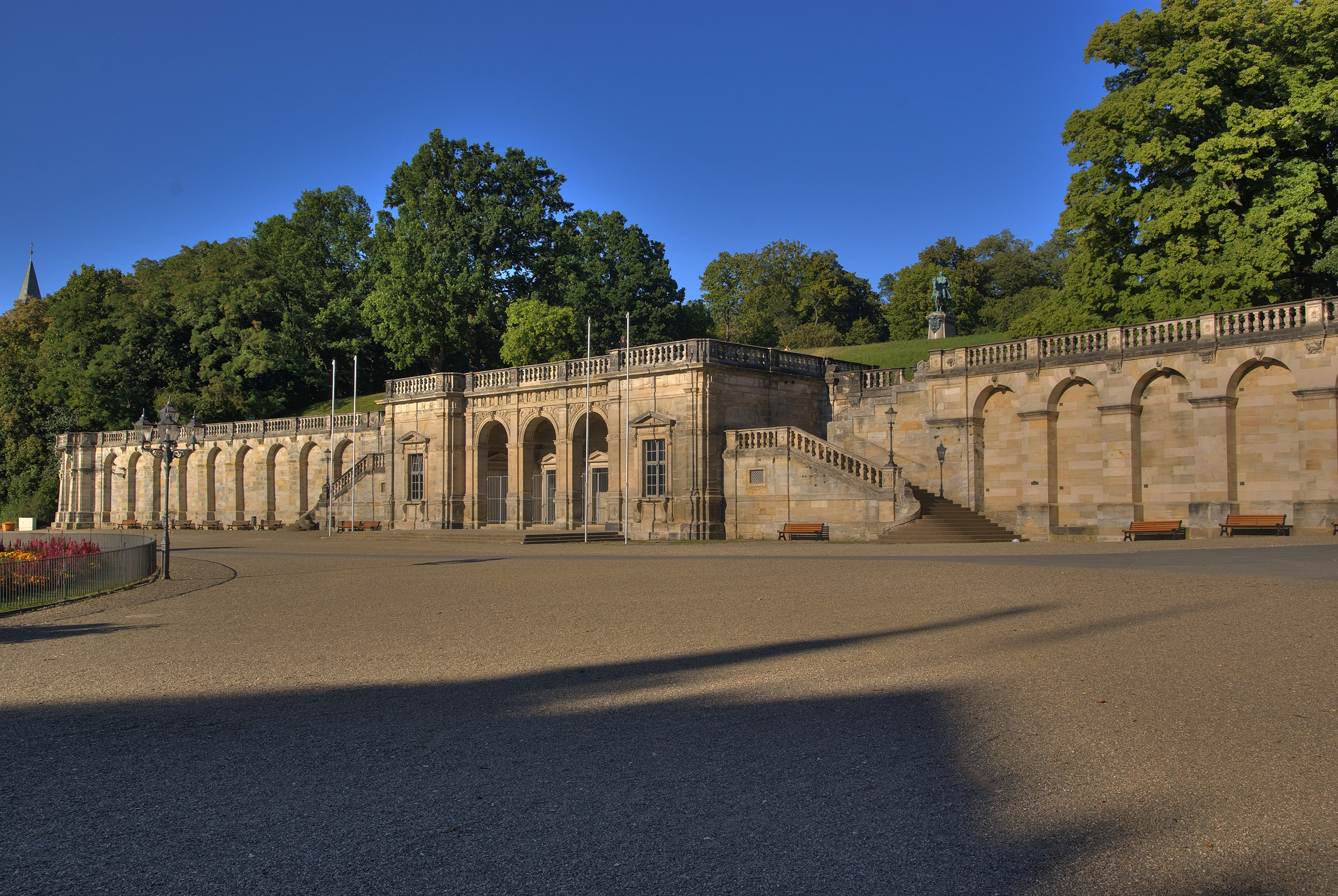 Schlossplatz in Coburg, Bavaria, Germany. Arcades and stairs